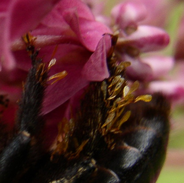 Carpenter bee (Xylocopa virginica) carrying pollinia from milkweed flowers (closeup). Peace Valley Nature Center, Bucks County, Pennsylvania, USA.